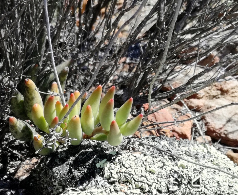 Touwsrivier - Adromischus filicaulis